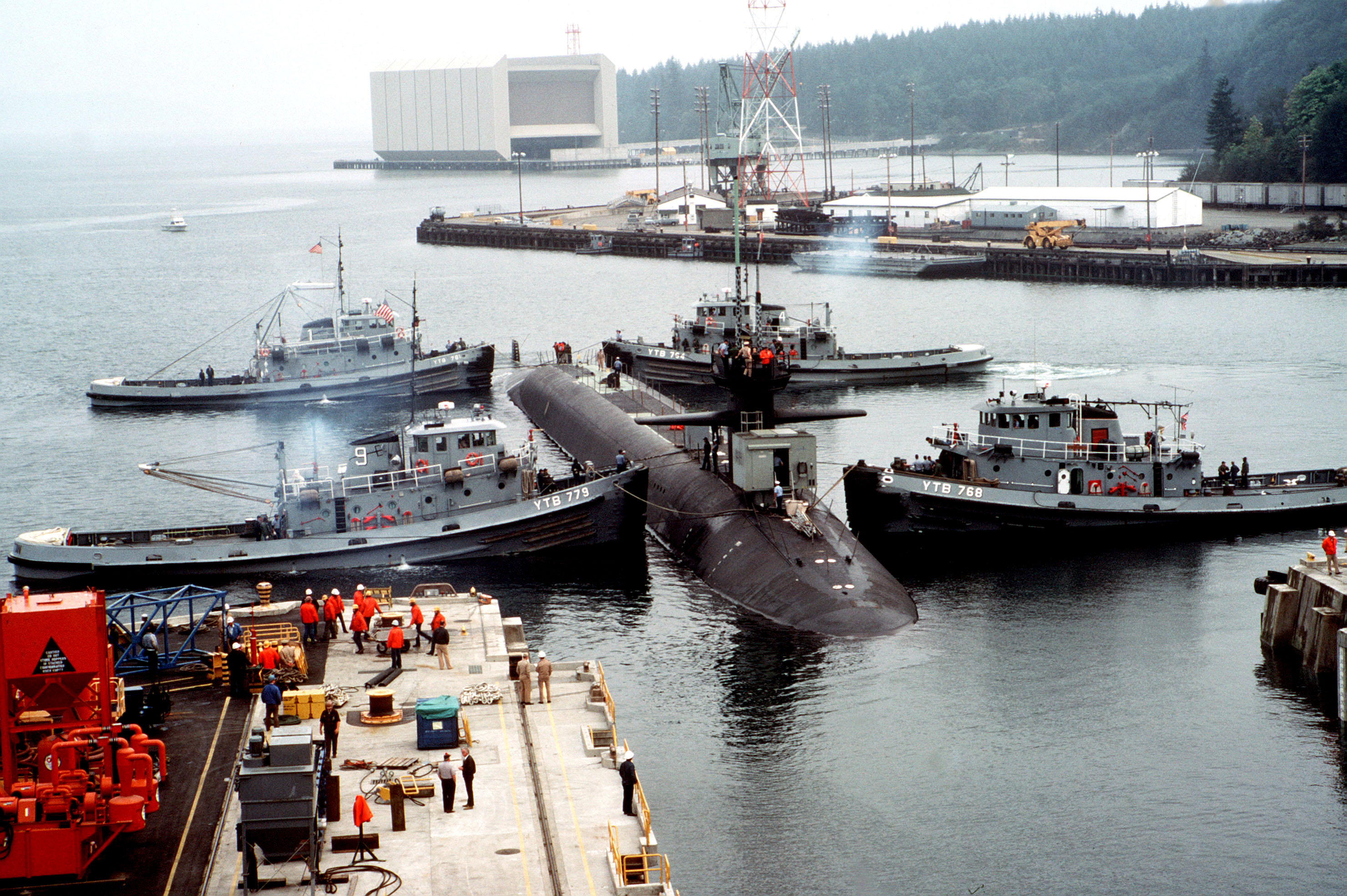 YTB 760-class harbor tugs guide the nuclear-powered strategic missile submarine USS OHIO (SSBN 726) out of dry dock at Delta Pier.